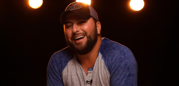 Tyler Farr with Walmart Soundcheck